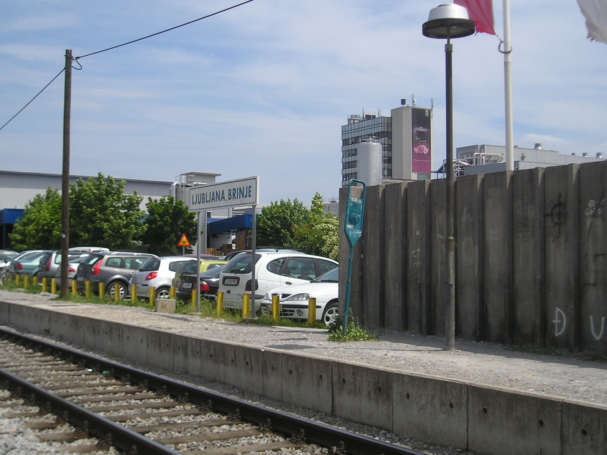 Railway halt Ljubljana Brinje